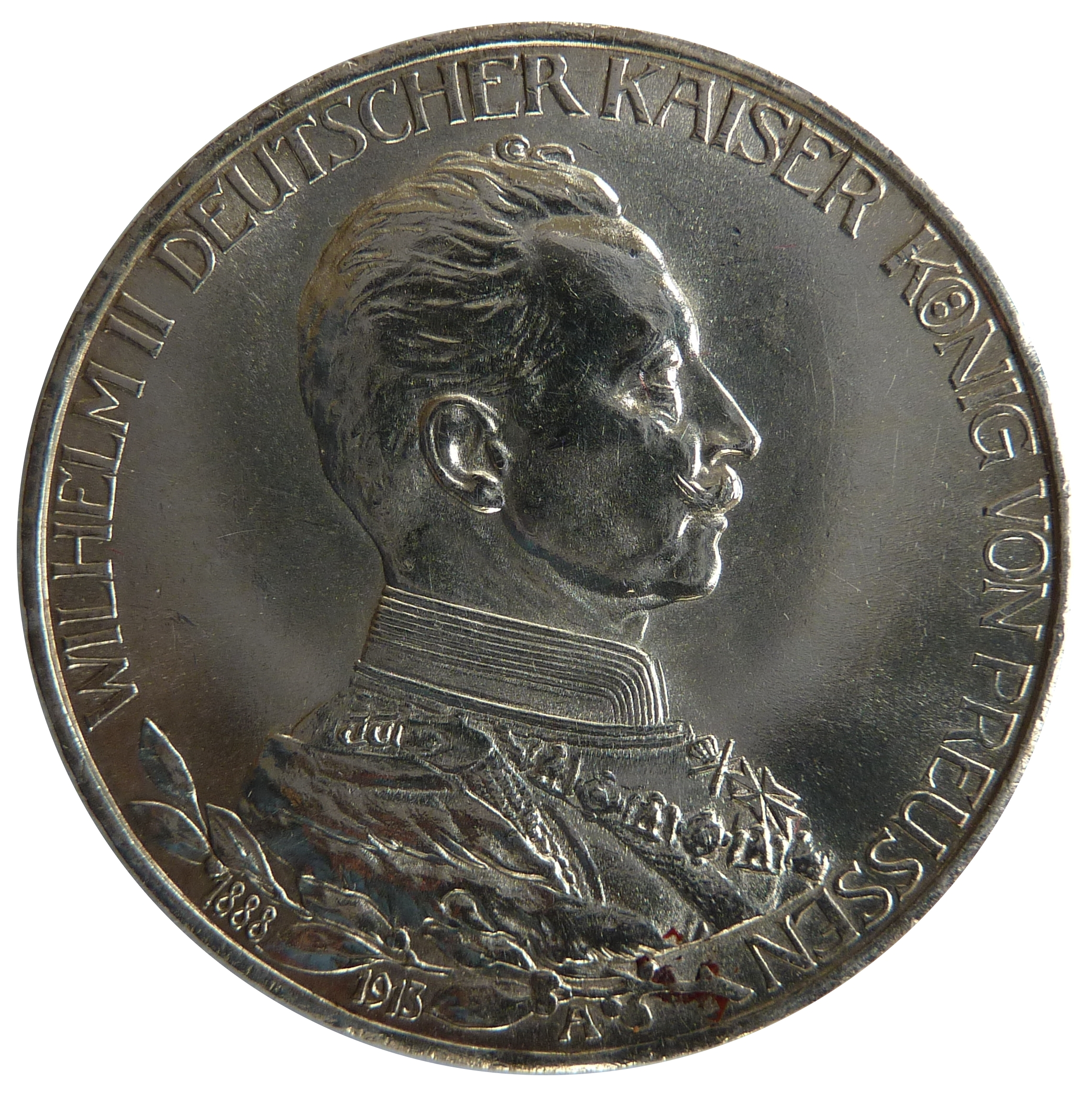 Obverse of the coin of Prussia "Governmental anniversary of William II."